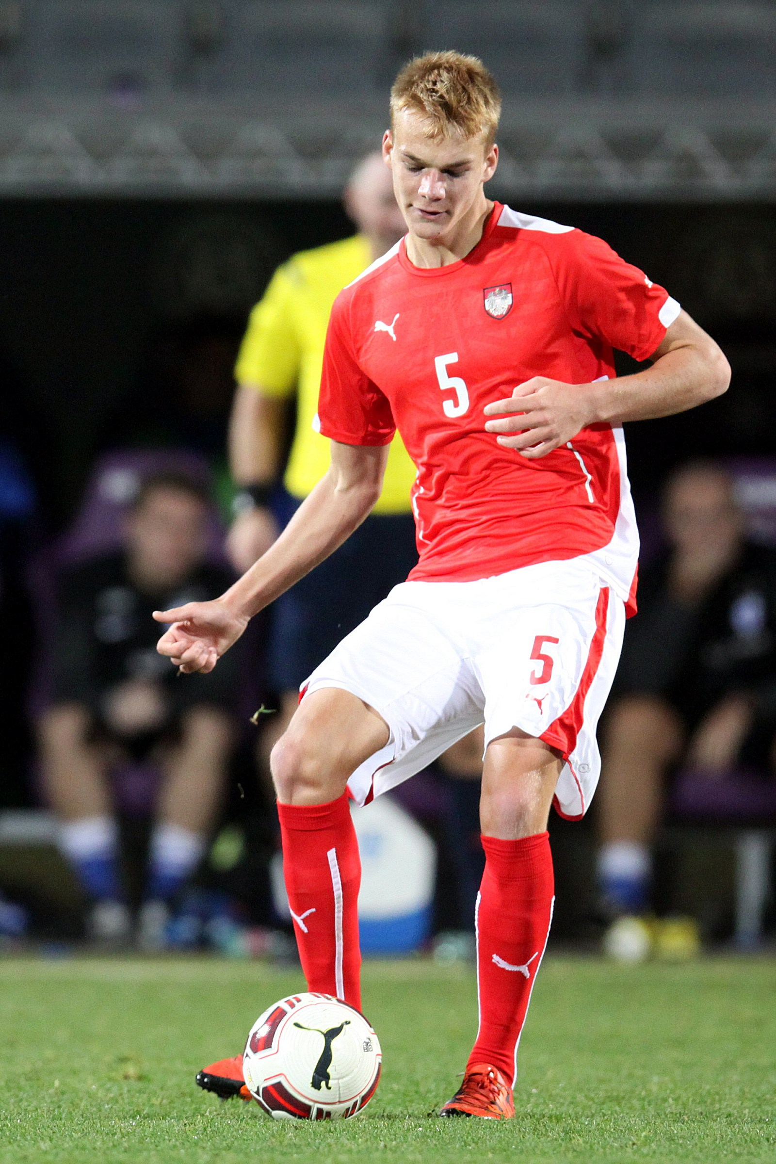 2017 UEFA European Under-21 Championship qualification – Austria U-21 (red shirts) vs. :en:Finland national under-21 football team |Finnland U-21 (blue shirts) 2-0 (0-0) – 2015-11-13 in Vienna, Austria Arena – The photo shows Philipp Lienhart.